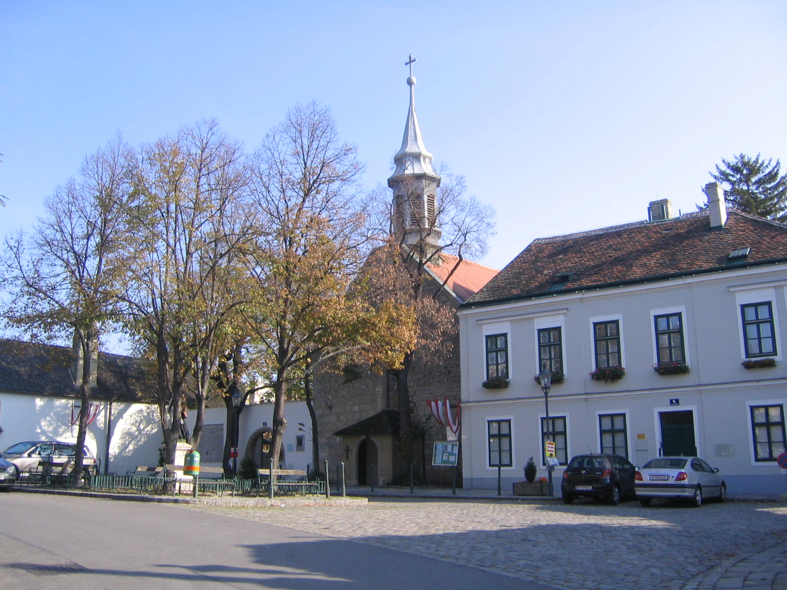 Vienna, Pfarrplatz Heiligenstadt - center Church St. James, right former school building of the Viennese Suburb Heiligenstadt